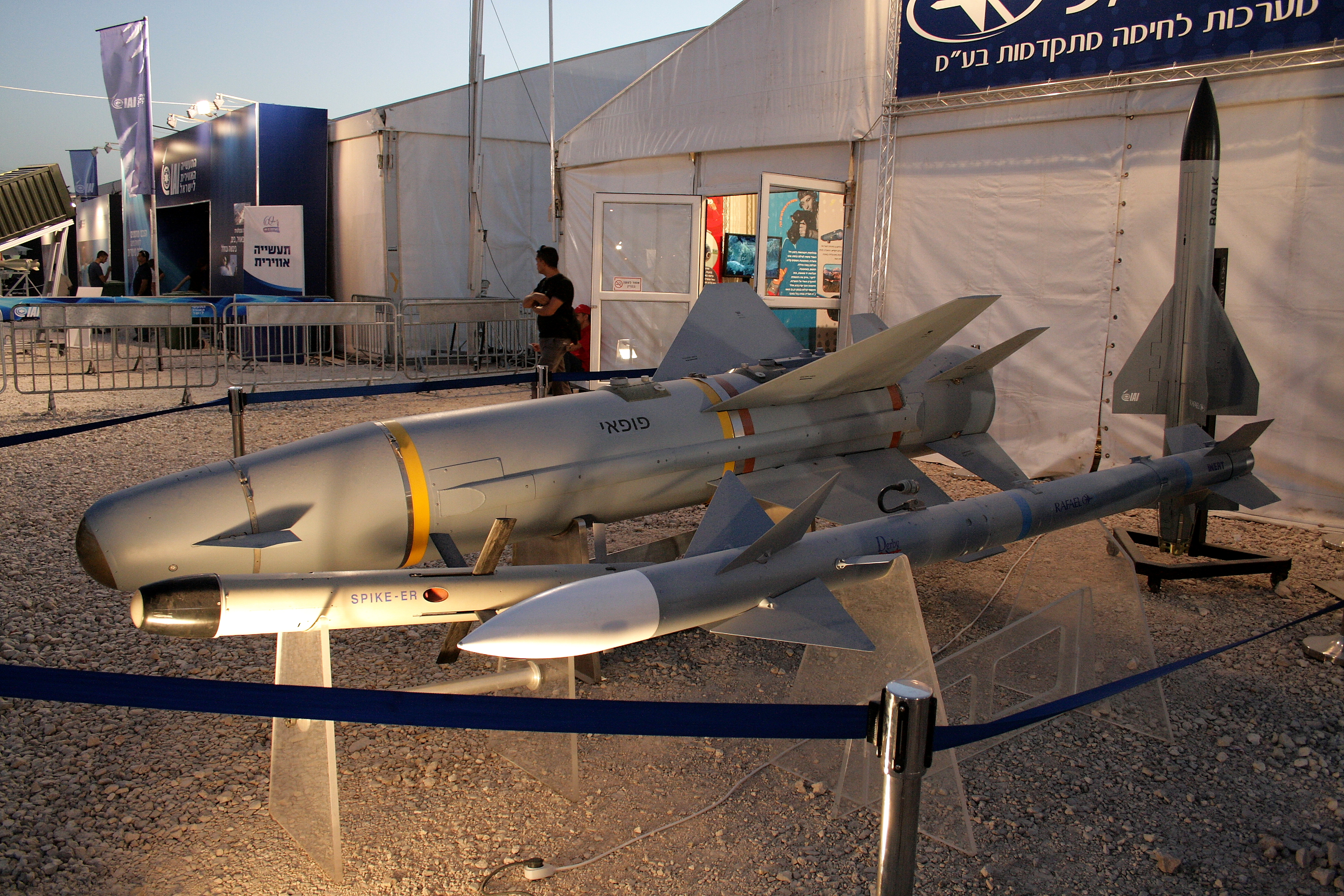 AGM-142 missile (back) Spike missile (closer) Derby missile (front) Barak 1 missile (right)